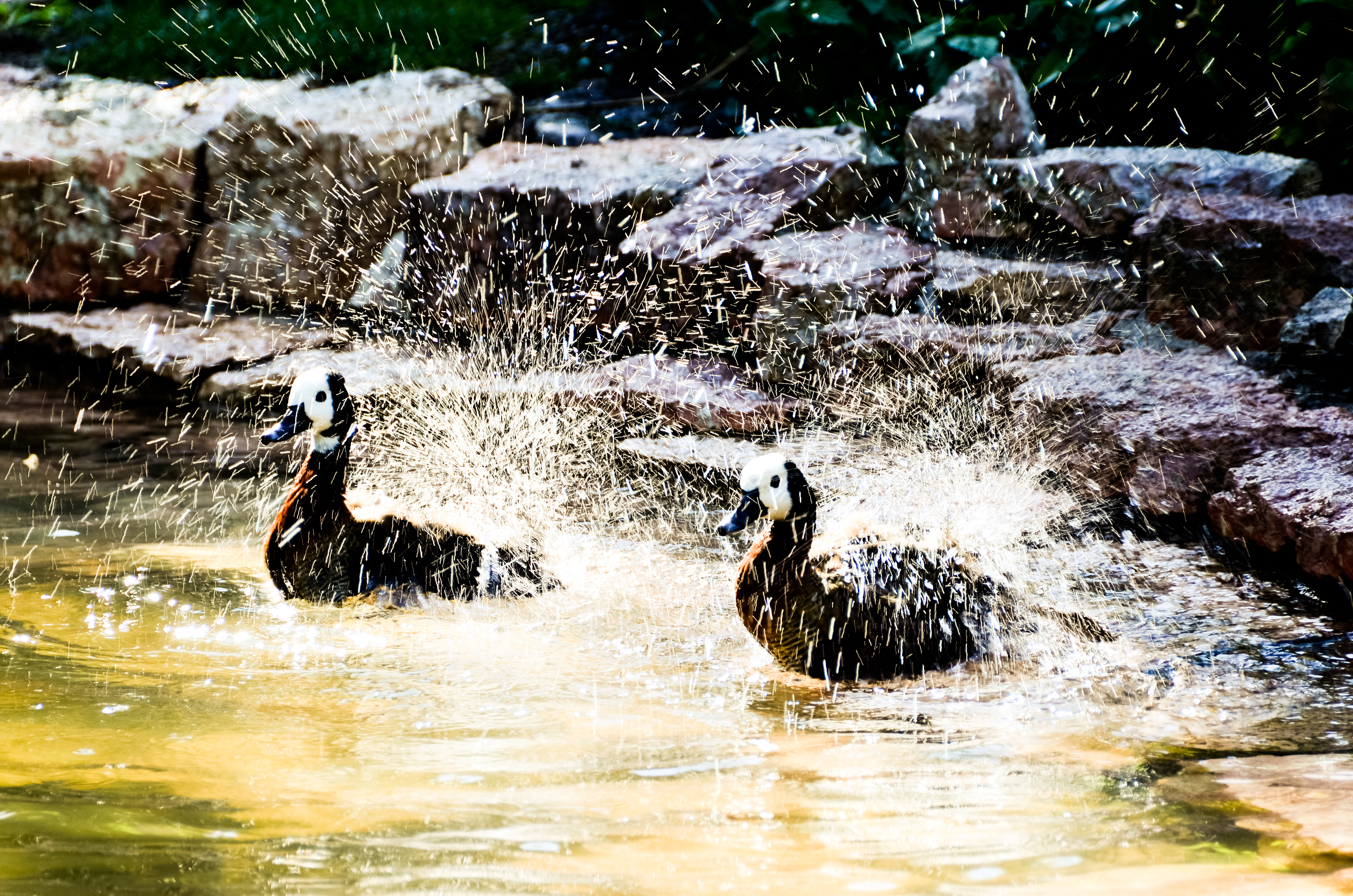 White-faced Whistling Ducks (Dendrocygna viduata) at Weltvogelpark Walsrode (Walsrode Bird Park, Germany)